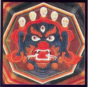 Work by Nicholas Roerich